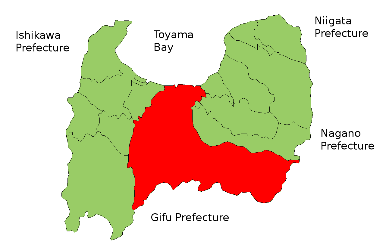 Location Map of Toyama City in the Toyama Prefecture, Japan